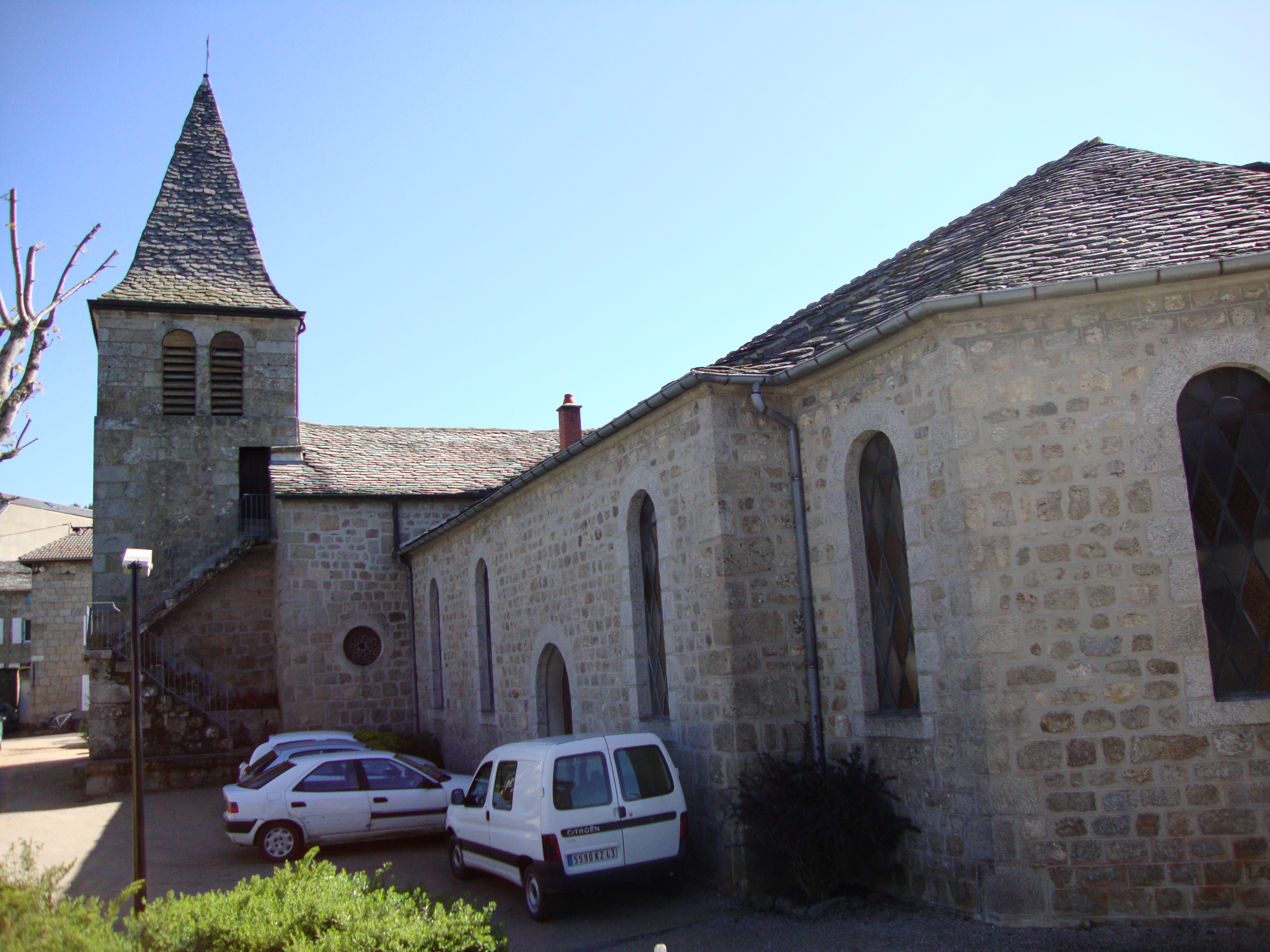 Le Chambon-sur-Lignon (Haute-Loire, Fr) church